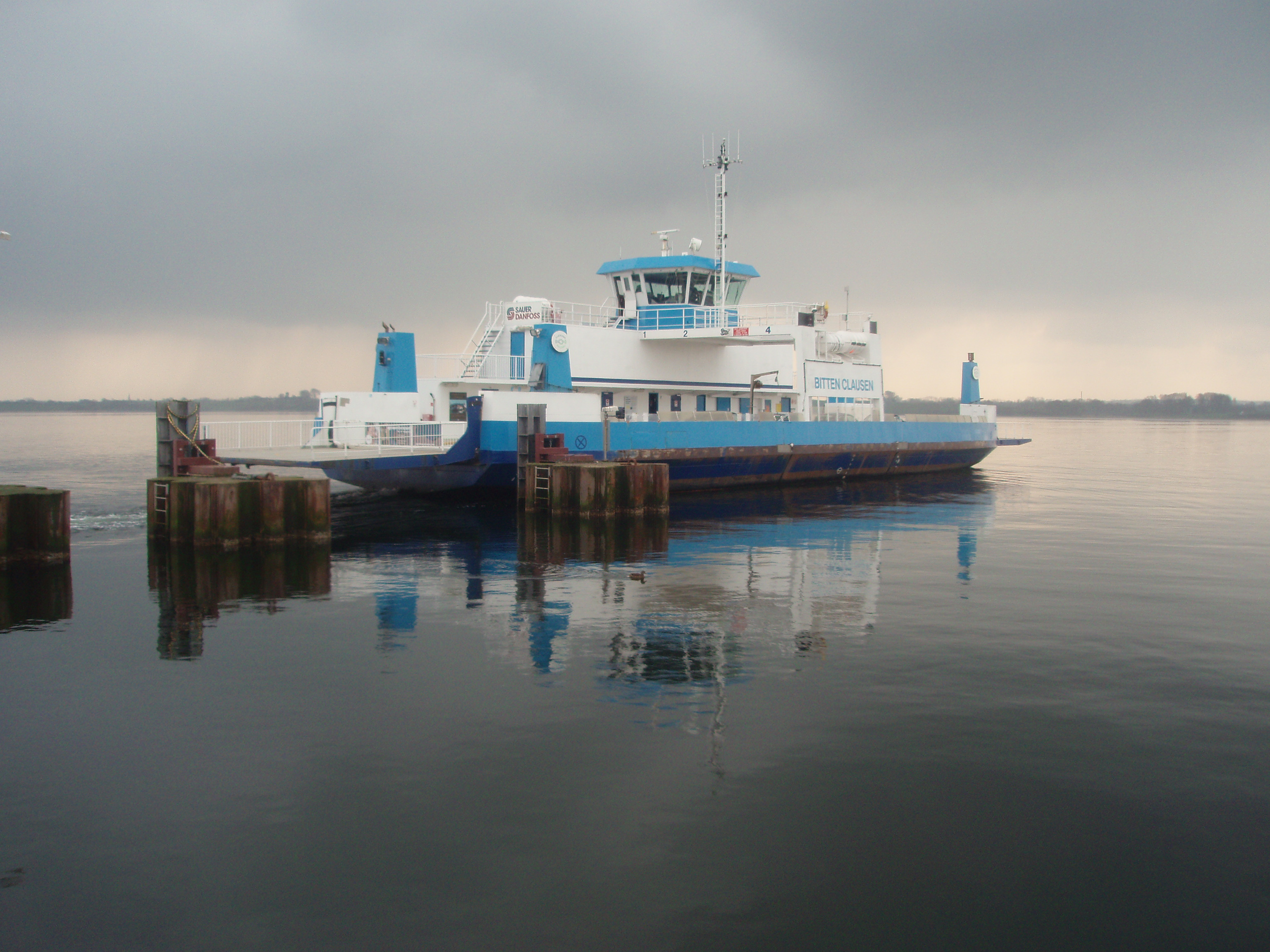 MF Bitten Clausen, Hardeshøj Denmark, March 2009 IMO Number: 9237840 MMSI Number: 219001431 Callsign: OZYS Length: 54 m Beam: 14 m